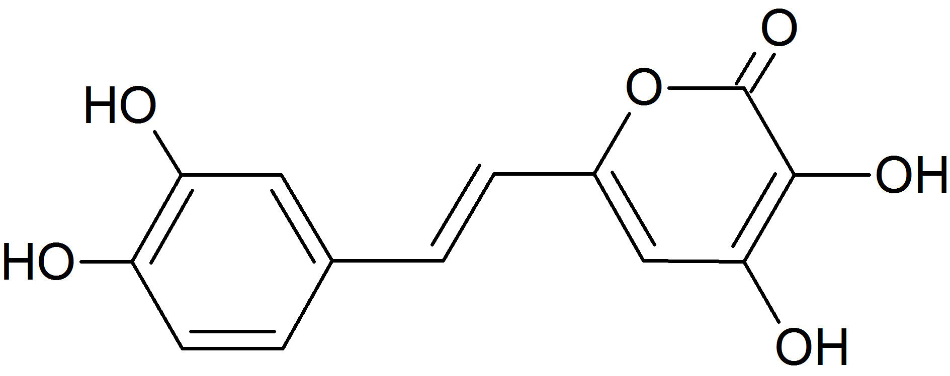 (E)-6-(3,4-Dihydroxystyryl)-3,4-dihydroxy-2H-pyran-2-one